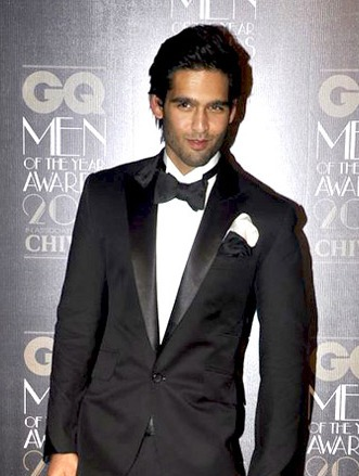 Indian enterprenur Siddharth Mallya